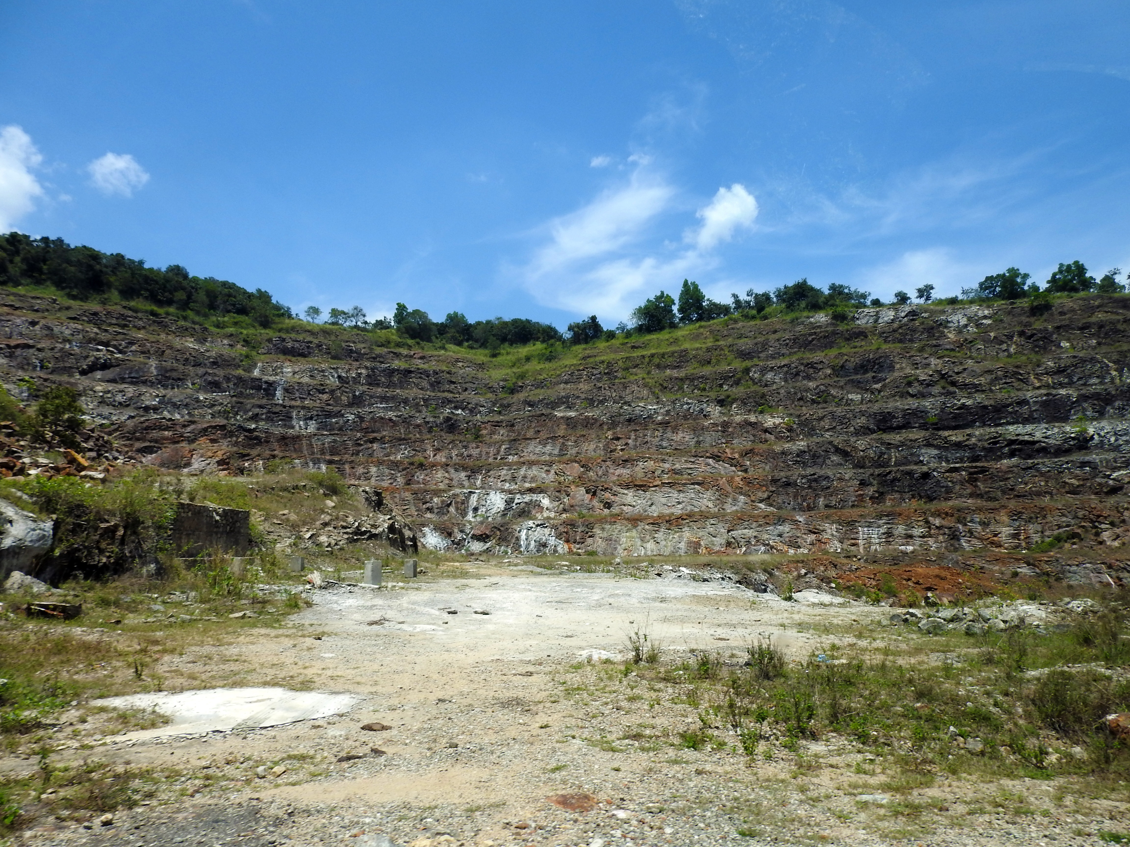 This photo was taken as part of a photo project by Wikimedia Community User Group Sri Lanka, covering current/future hydroelectric dams (and its surroundings) in the Central and Sabaragamuwa provinces of Sri Lanka. User:Rehman handled the photography, while User:Azeez and User:PasinduBR handled the logistics/planning of routes. Description of photo: Samanala Dam site. Further information on the subject(s) of the photograph may be found in the category/ies of this file.